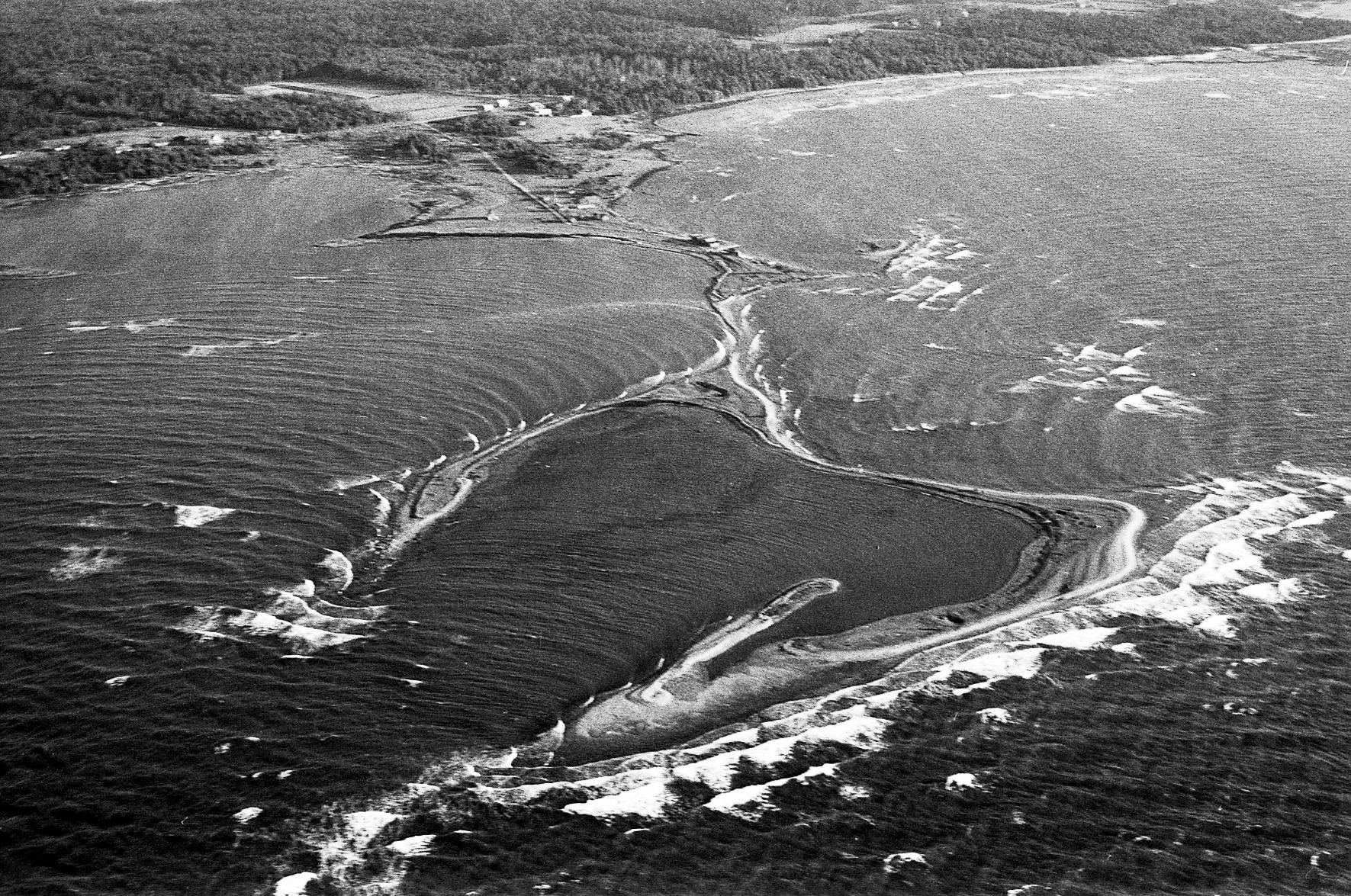 Aerial photo of bars, spits and hooks along the shore at Kovik, Sanda (6I 3 i). Photographer: Sven-I, Svantesson, SGU